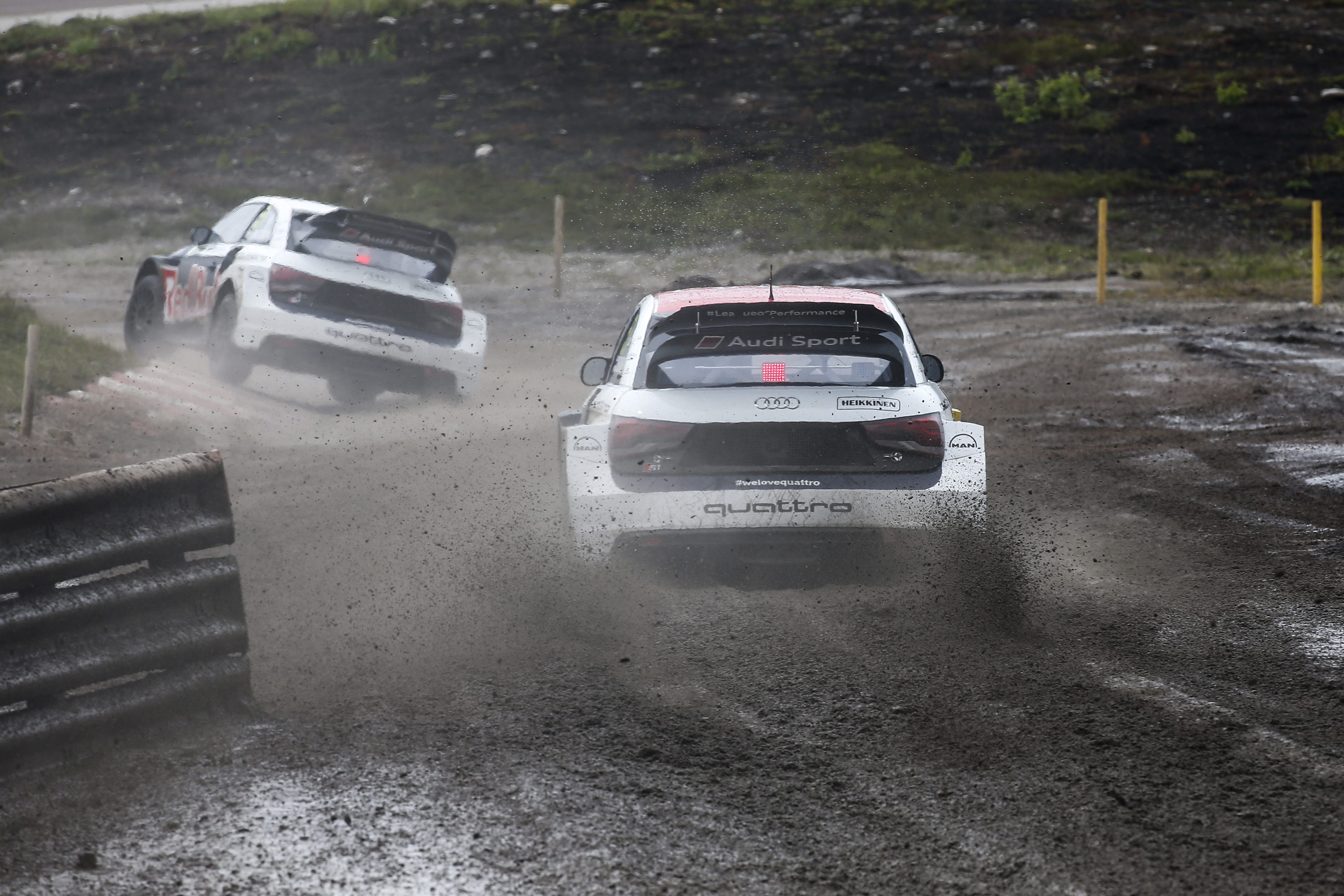 2016 FIA World Rallycross Championship / Round 06, Holjes Sweden 1/7-3/7-2016 // Worldwide Copyright: Tony Welam/EKS/McKlein